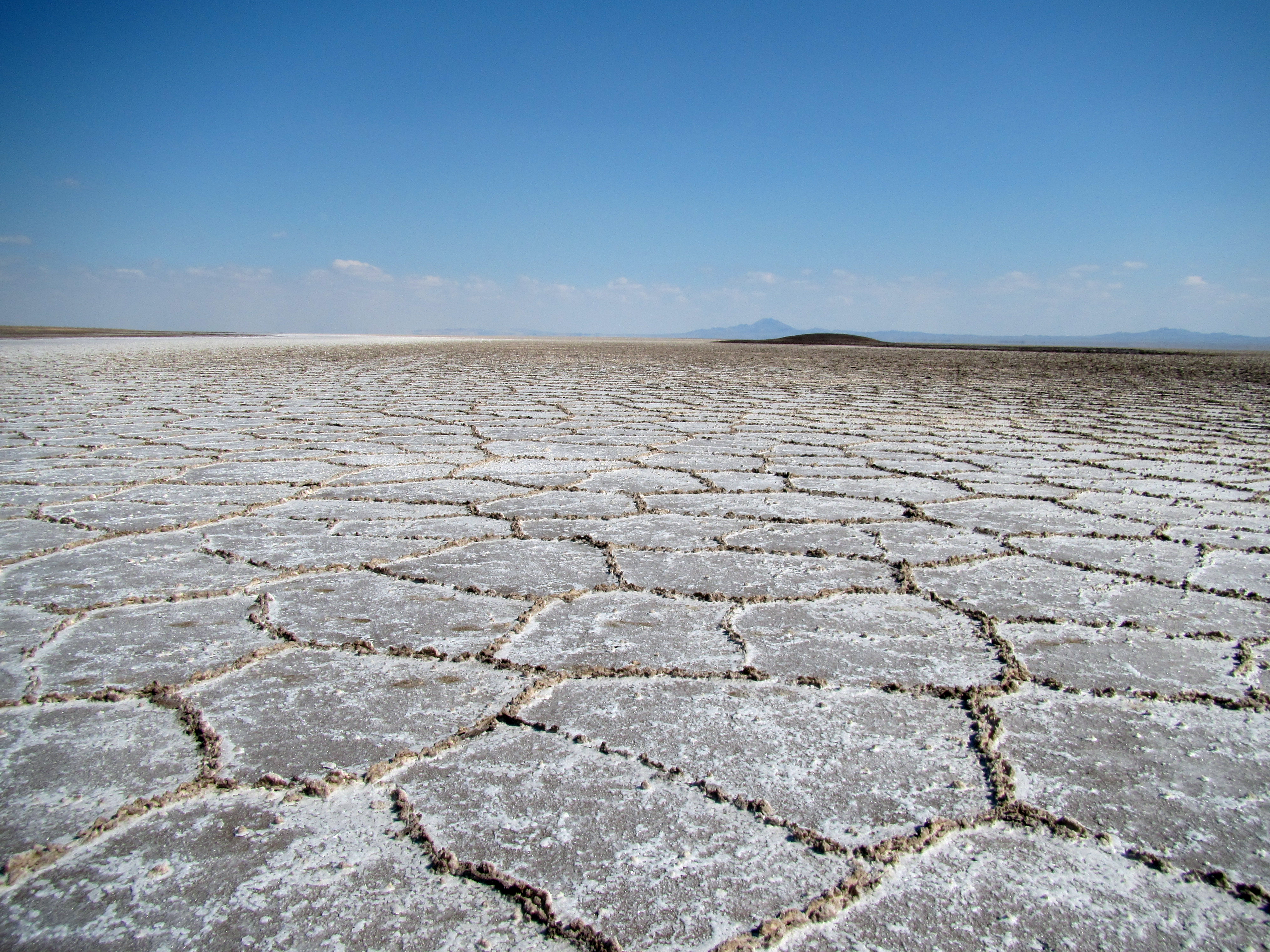 Namak Lake is a salt lake in Iran. It is located approximately 100 km (62 mi) east of the City of Qom and 60 km (37 mi) of Kashan at an elevation of 790 metres (2,590 ft) above sea level.